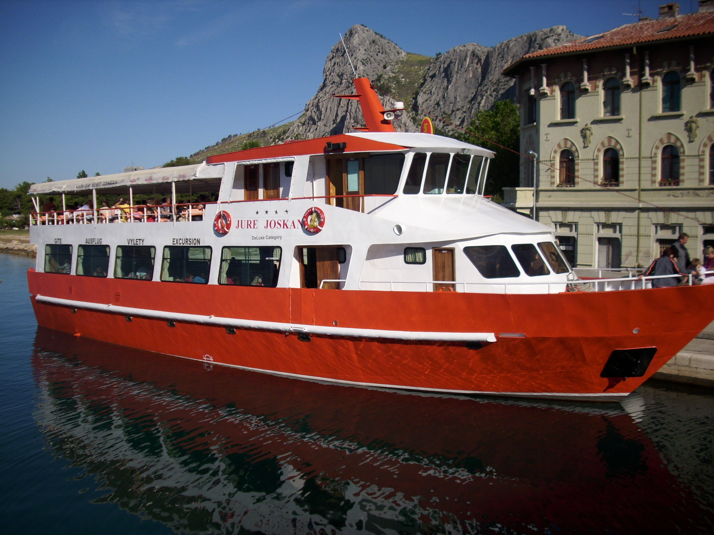 a ship